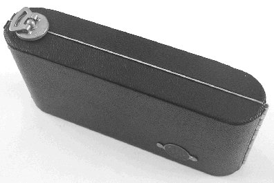 Folding camera, folded view Photograph available under GFDL license. I [Ericd] took this picture myself with a digital camera Olympus C-960. The picture was digitally edited. You do not need my permission to reuse it, but you may not claim that you took the photo yourself.